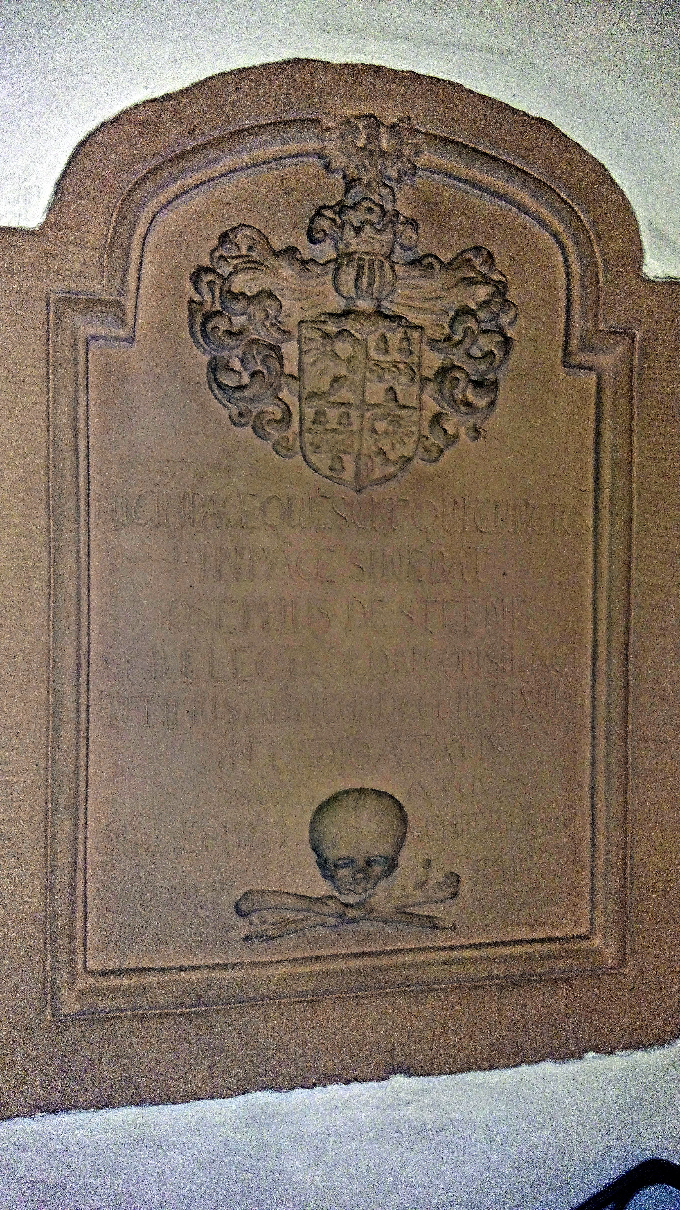 Epitaph des kurkölnischen Geheimrats Jakob Joseph von Stefne (+1753), Erbauer von Schloss Kleinniedesheim, Wallfahrtskirche Maria Einsiedel, Gernsheim